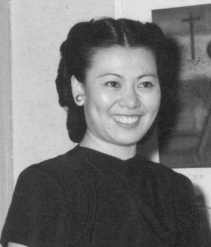 Miss Mine Okubo, Nisei, who resettled to New York from the Topaz Center, paused to have this picture taken while greeting friends at a tea in her honor at the opening of an exhibit of her drawings and paintings of center life at the American Common in New York City on March 6, under the auspices of the Common Council for American Unity. Miss Okubo came East in 1944 to serve as contributing artist to Fortune Magazine's special issue on Japan. She has also contributed to the New York Times, Saturday Review of Literature, Survey Graphic, and Lamp. She recently completed a manuscript for a book about the evacuation of Japanese Americans from the West Coast. Born in Riverside, Calif., her art work has been widely exhibited on the West Coast, where she won several prizes. The University of California awarded her the B.A. and M.A. degrees, and in 1938 its highest art honor--the Bertha Henioke Taussig Memorial Traveling Fellowship. On this she studied for two years in Europe. She returned to this country when the war started and began work almost immediately at the Golden Gate Fair, demonstrating fresco painting. She was evacuated to the Tanforan Center in May 1942 and taught art for six months. At Central Utah, she was on the staff of the Topaz Times and art editor of Trek. Her father, a married brother and family are at the Poston Center. Another brother teaches art at Heart Mountain. A married sister and family resettled in Brooklyn, N.Y. Two other brothers are in the U.S. Army--Pvt. Senji, who recently returned from France with the Purple Heart after service with the 442nd Regimental Combat Team, and Pfc. Toku, who is stationed at Fort Snelling, Minn. -- Photographer: Fujihira, Toge -- New York, New York. 3/6/45Identifier: Volume 40, Section JWRA no. G-828War Relocation Authority Photographs of Japanese-American Evacuation and Resettlement, Series 12: Relocation: new homes, etc. (various places).Courtesy of UC Berkeley, Bancroft Library.